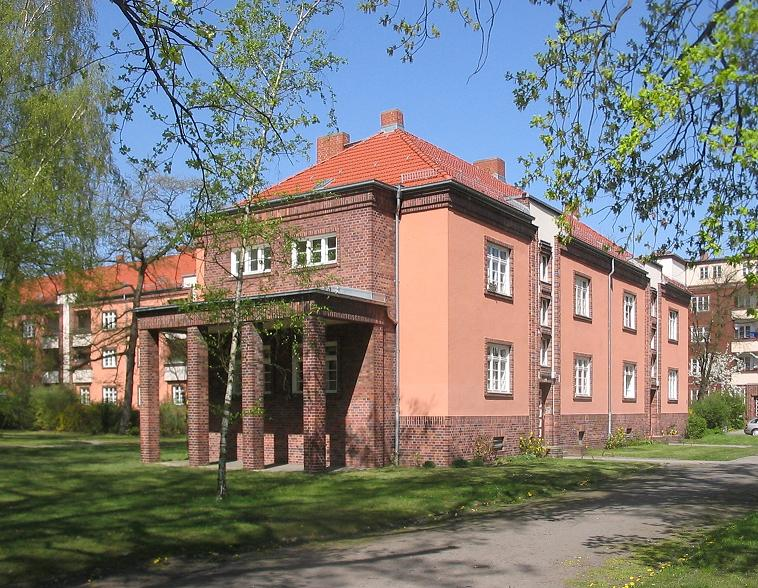 The Siedlung Birkenwäldchen (german for: settlement birchcopse) is a residential area in Berlin-Wilhelmstadt (Bezirk Spandau) at the Grimnitzsee (lake). It is a listed building- as well as gardenmonument. It was built in 1926/1928 by the architect Richard Ermisch.